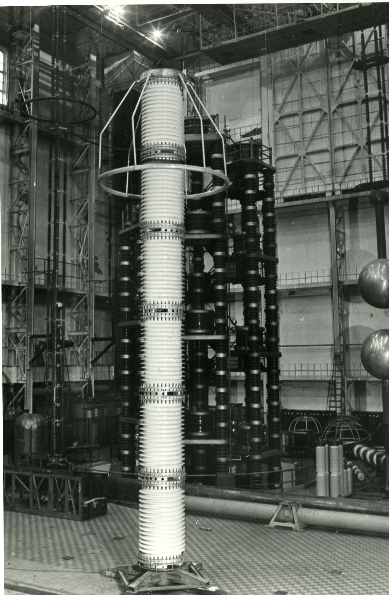 A high voltage surge arrester in a high voltage lab, Russia. The metal ring around the top end is a "grading ring" to even out the potential gradient along the insulator, preventing electrical breakdown. In the background is a Marx generator (tall rectangular frame). It creates extremely high voltage pulses for insulation testing. Translation of Russian description above: Discharger RVMK-1150 Photo taken at Moscow's federal technical institute in 1978